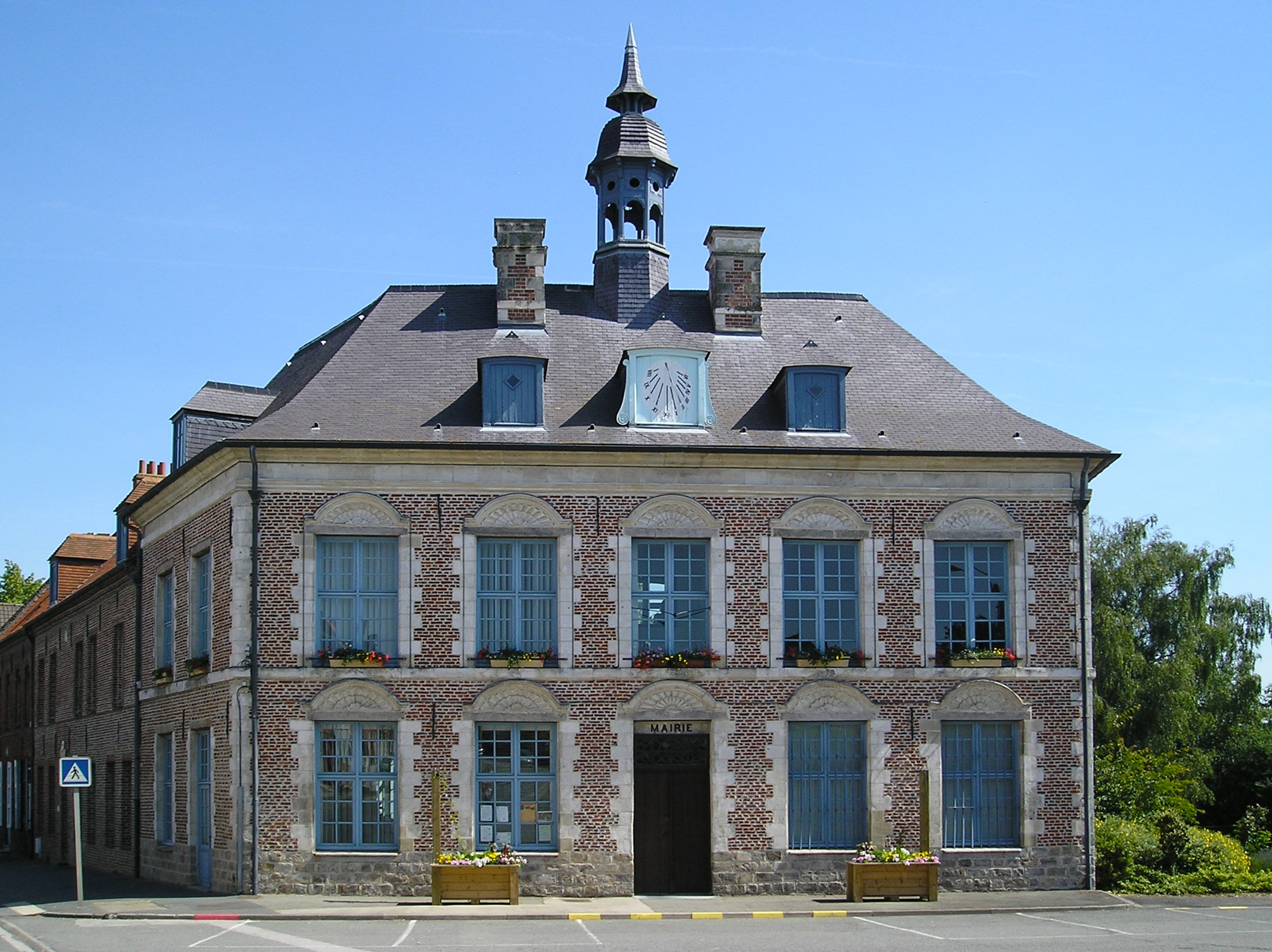 Town hall of Morbecque (Nord, France).